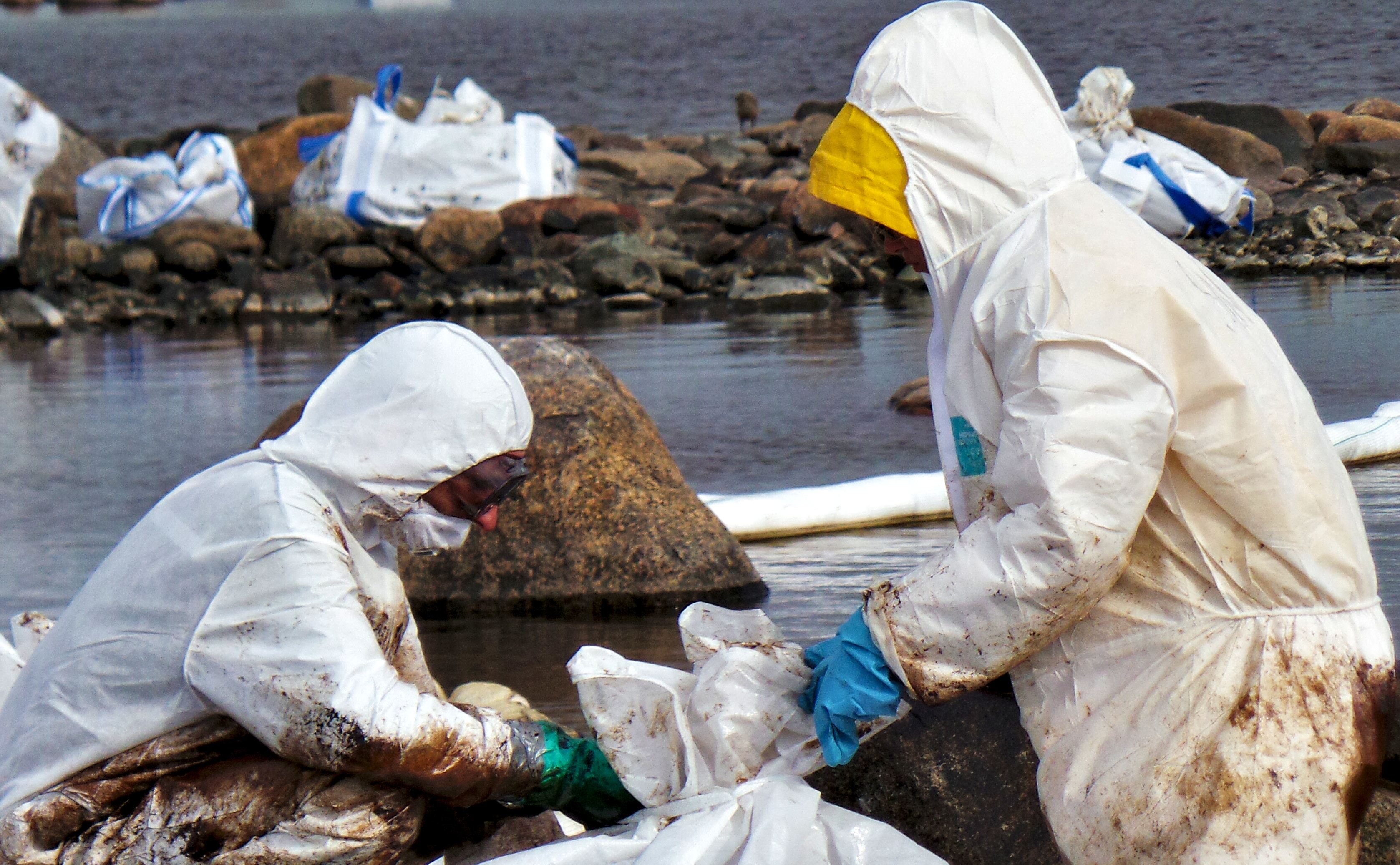 Volunteers cleaning shoreline stones at an oil spill in Raahe, Finland.